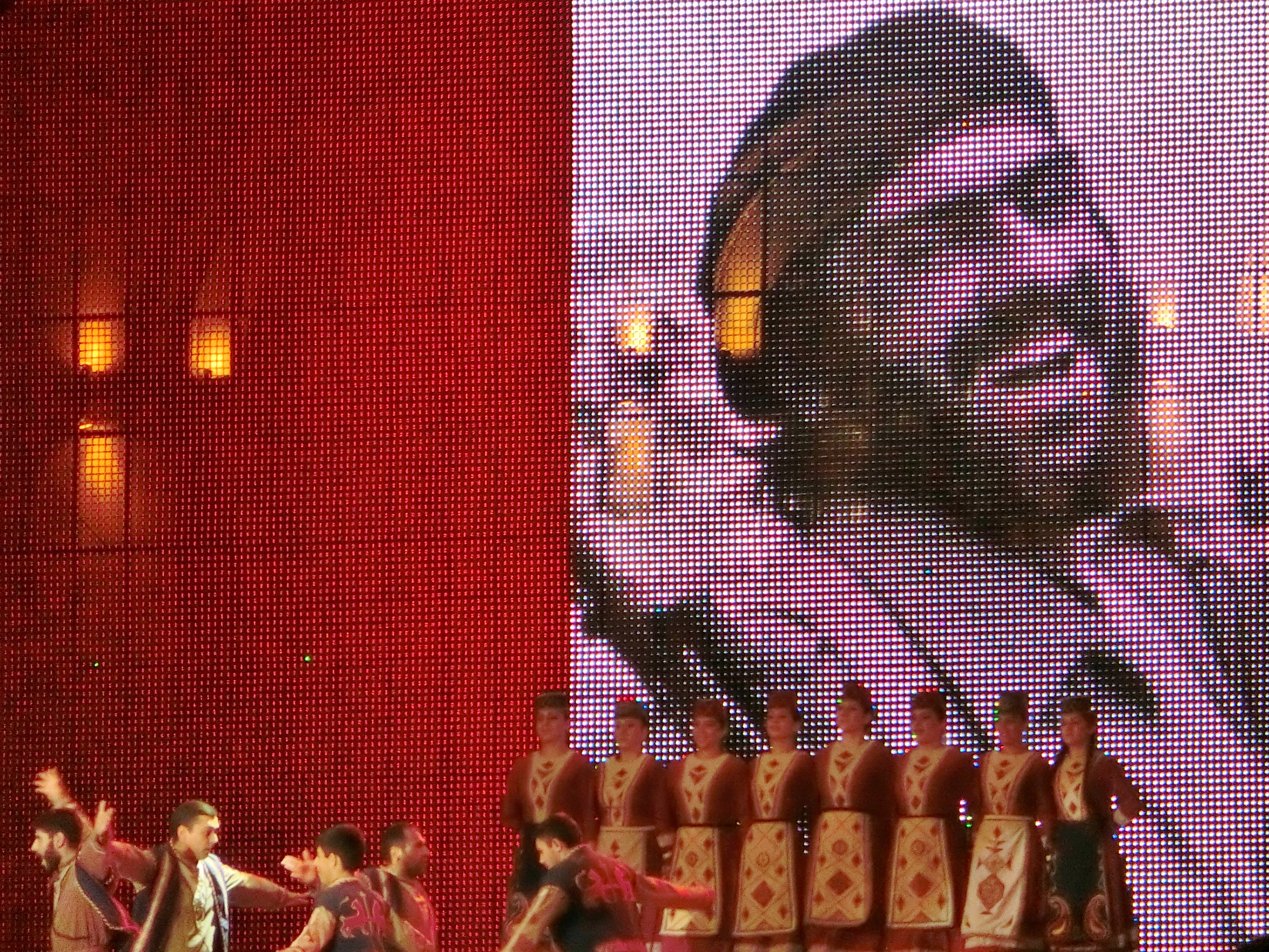 Independence Day Celebrations in Republic Square (2014). Picture of Arayik "Lonewolf" Khandoyan in the background.